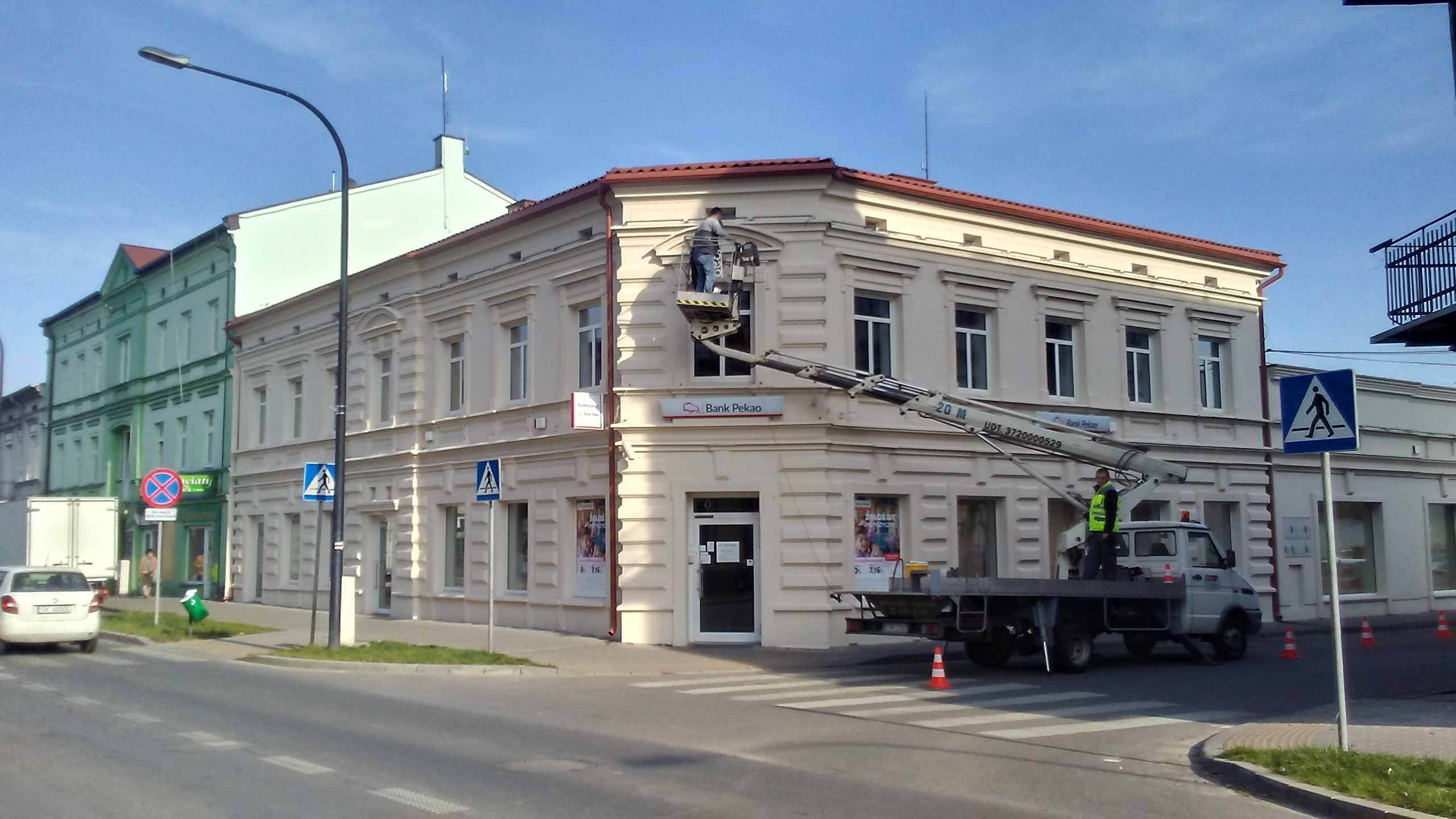 1898 tenement house, Tomaszów Mazowiecki